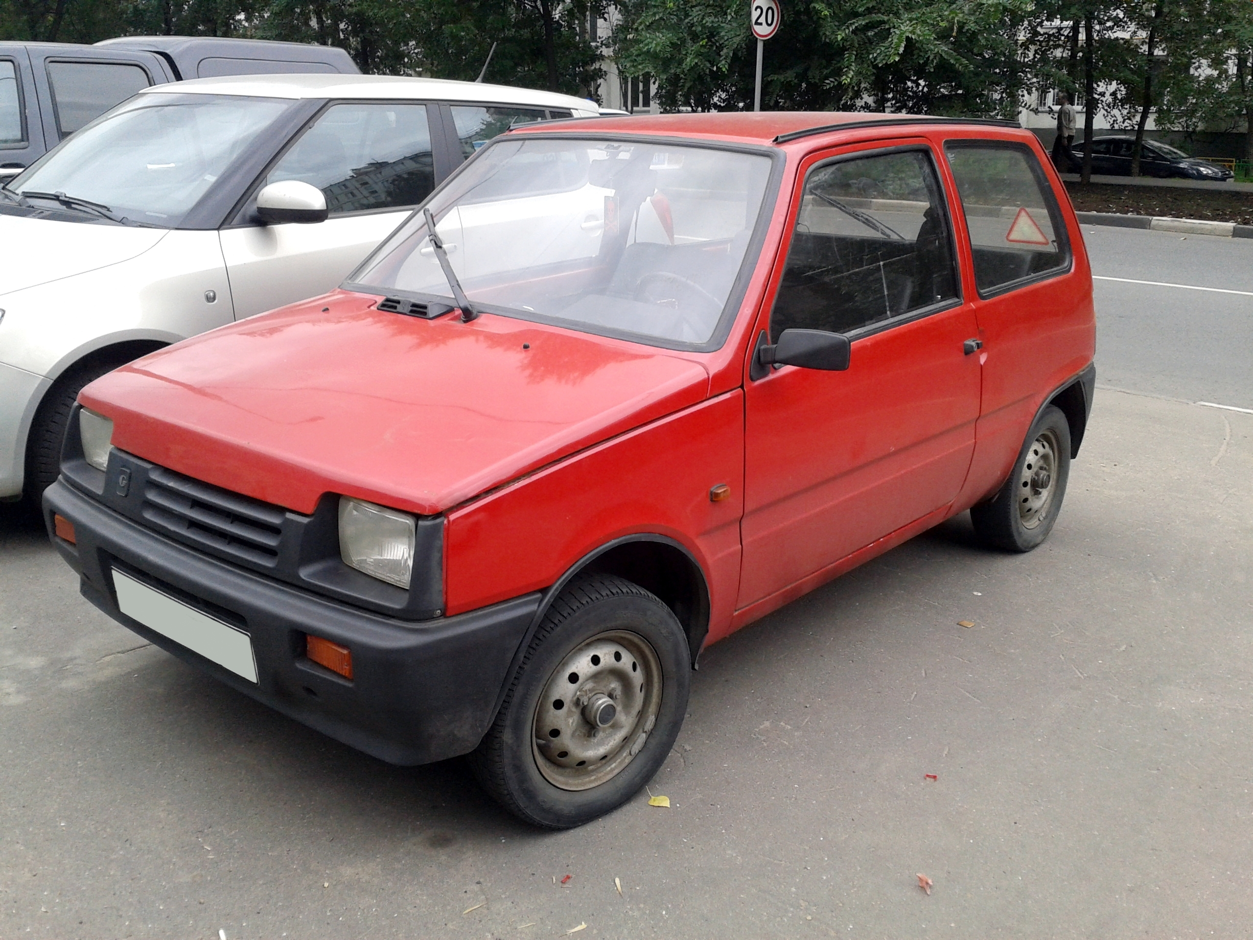 SeAZ-11116.